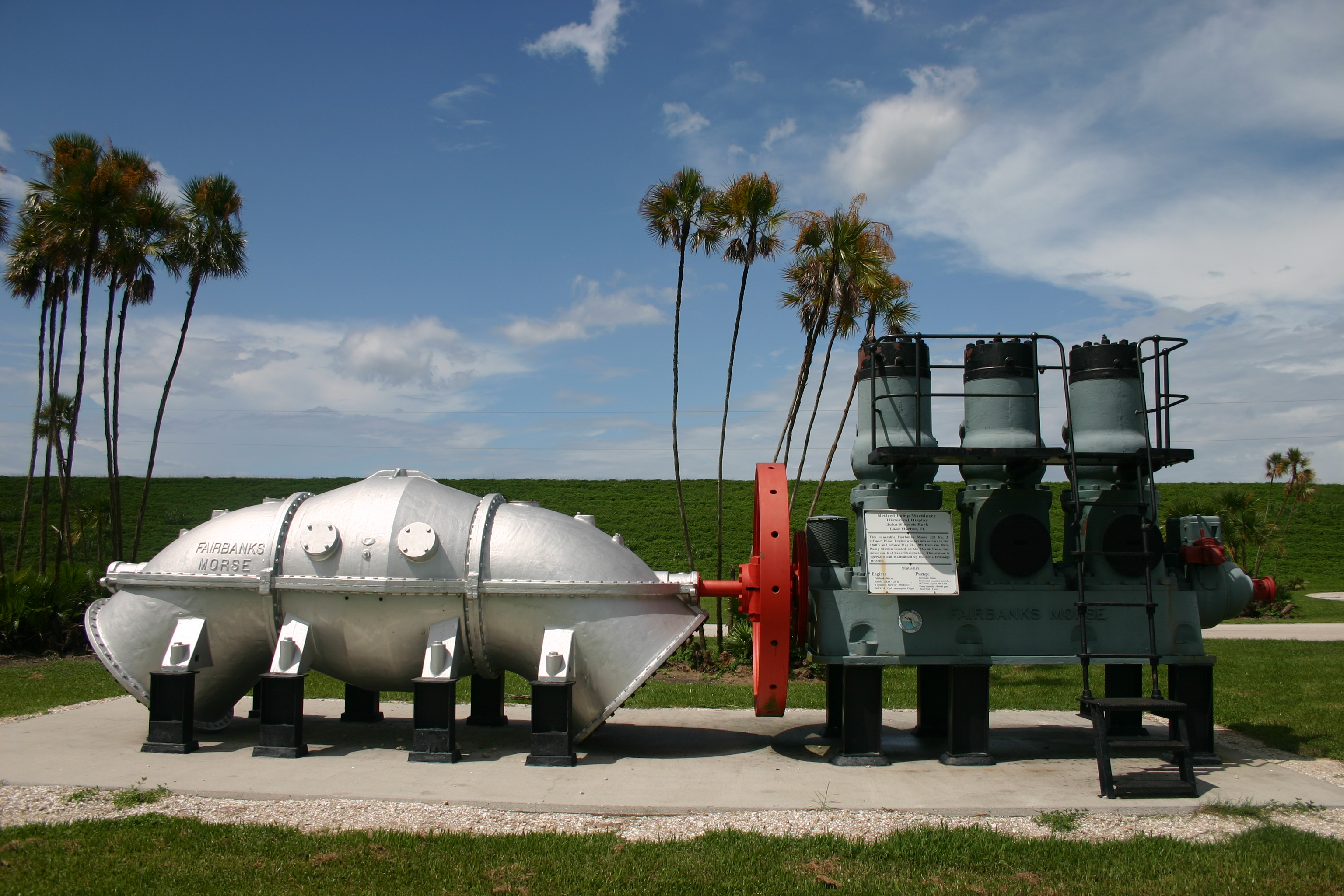 A Fairbanks-Morse diesel engine (model 32E14) and pump used for pumping canal water, on display at John Stretch Memorial Park. This 3-cylinder engine produced 225 horsepower, at a maximum of 300 rpm, with a 14-inch bore and a 17-inch stroke. The pump has a horizontal propeller, with an axial flow design, and a 48-inch diameter opening, and could pump 80,000 gallons per minute. It was put into use by the Central and Southern Water Management District during the 1940s, and retired from service on May 28, 1991.